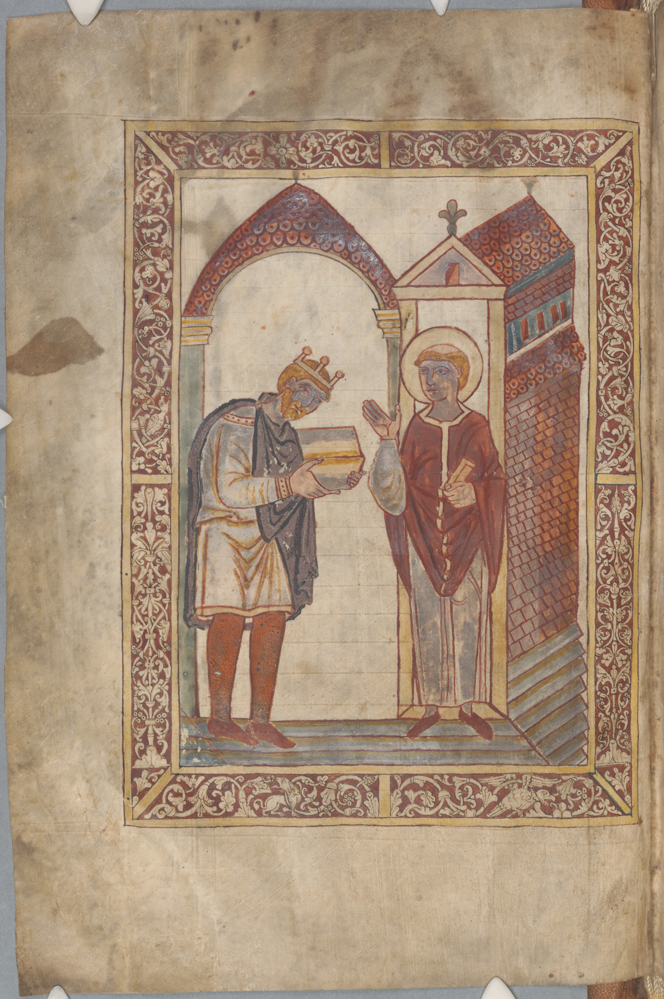 This image is a JPEG version of the original PNG image at File: Athelstan.png. Generally, this JPEG version should be used when displaying the file from Commons, in order to reduce the file size of thumbnail images. However, any edits to the image should be based on the original PNG version in order to prevent generation loss, and both versions should be updated. Do not make edits based on this version. See here for more information. Frontispiece of Bede's Life of St Cuthbert, showing King Æthelstan (924–39) presenting a copy of the book to the saint himself. 29.2 x 20cm (11 1/2 x 7 7/8"). Originally from MS 183, f.1v at Corpus Christi College, Cambridge.